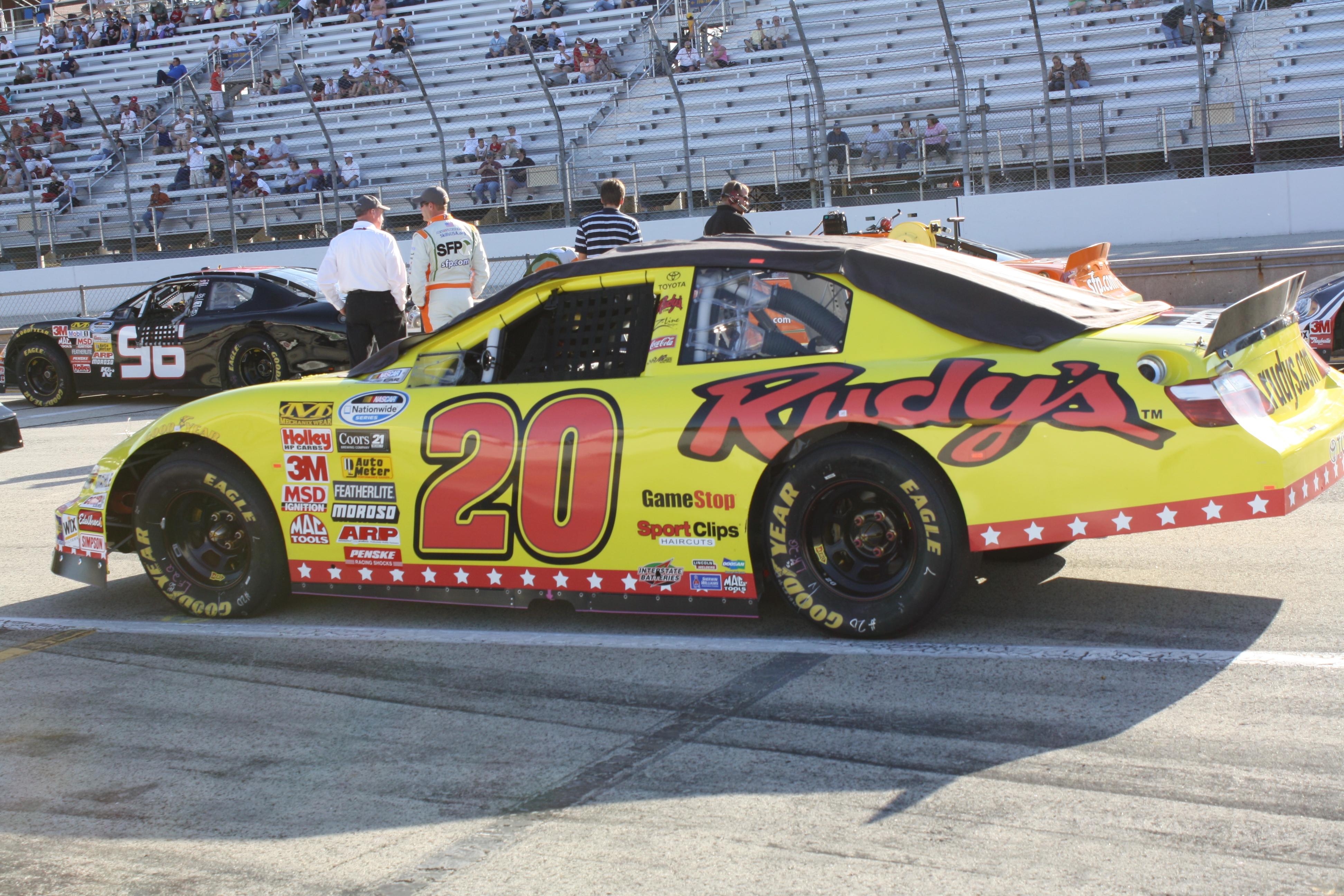 NASCAR driver Brad Colemans Toyota at the 2009 Northern 250 Nationwide Series race at the Milwaukee Mile.